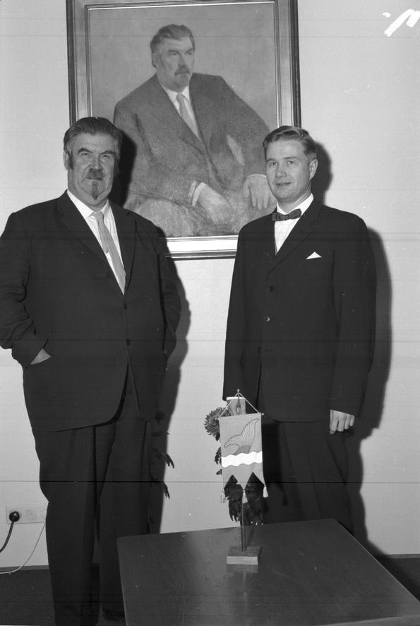 Photograph of the previous mayor of Vantaa, Lauri Korpinen (left), and his follower Lauri Lairala. Behind then, portrait of Korpinen, painted by Erkki Kulovesi.